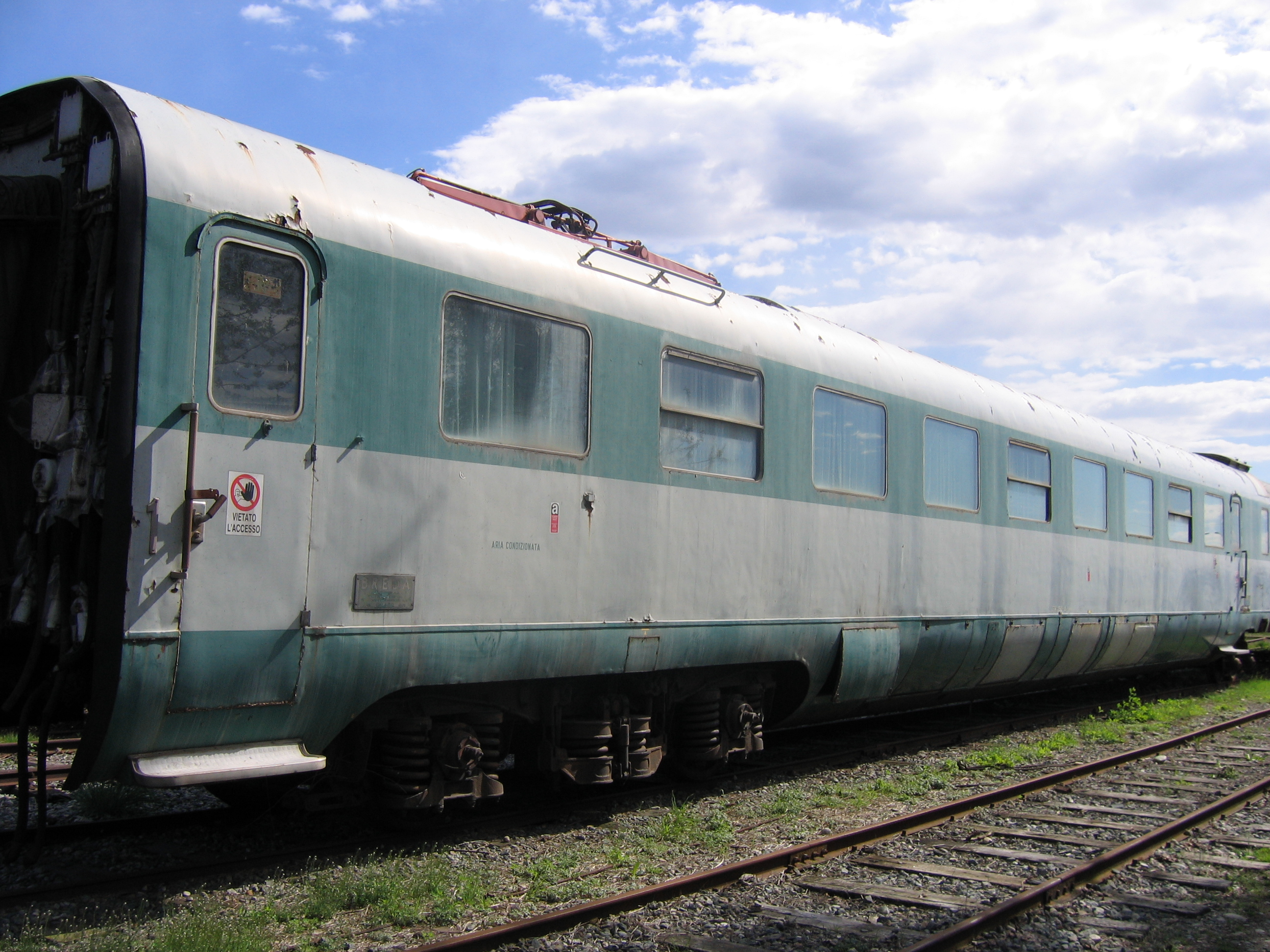 Last surviving original "Settebello" coach rail car, in bad conditions.